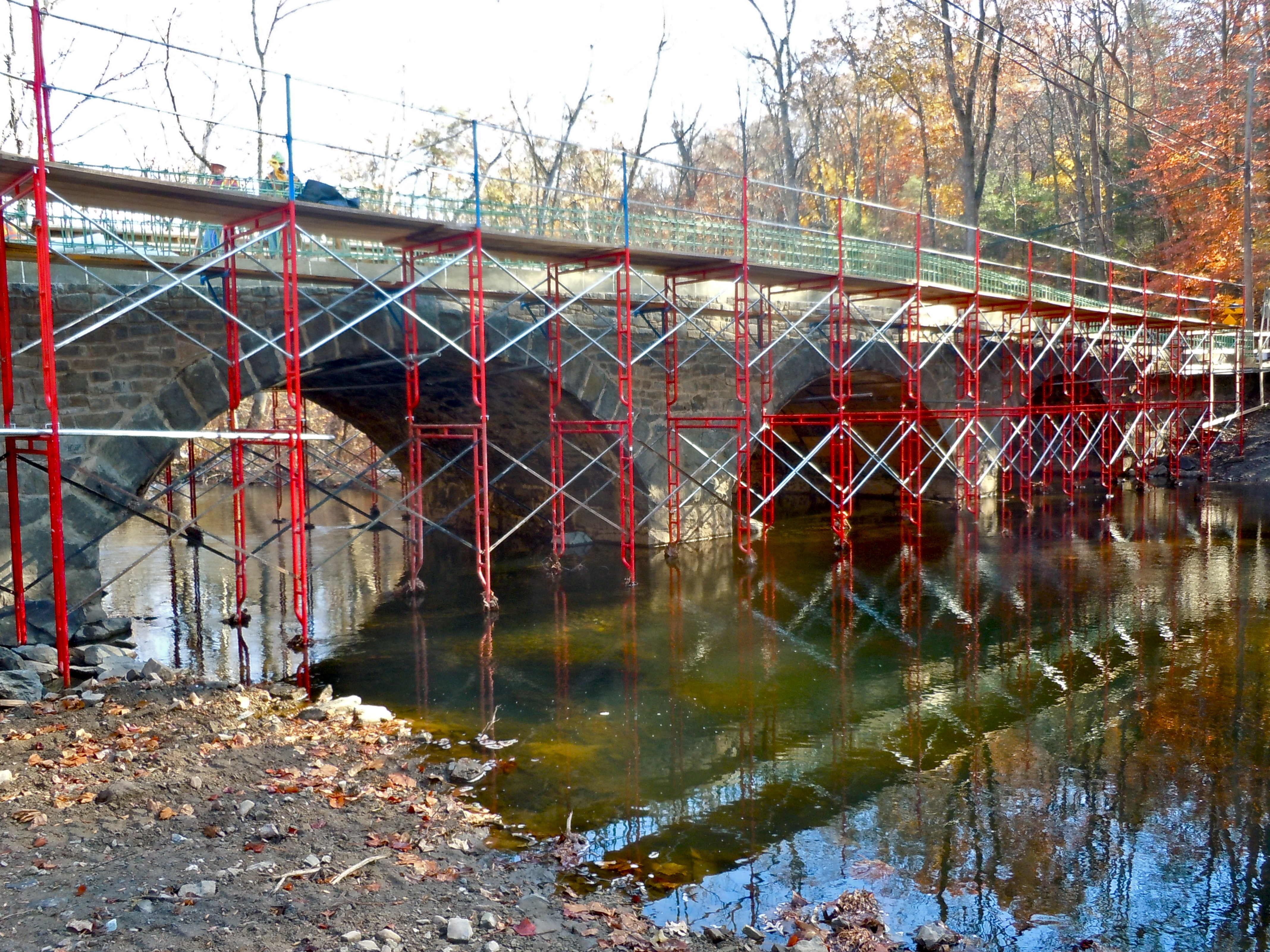 Swamp Creek Road Bridge on the NRHP since June 22, 1988. At Swamp Creek Road over Unami Creek, near hamlet of Sumneytown, Montgomery County, Pennsylvania.